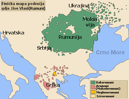 Ethnic map of regions inhabited by Romanians/Vlachs (in Bosnian language).